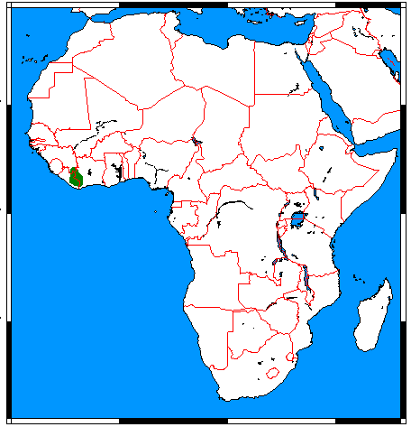 Range map for Liberian Mongoose (Liberiictis kuhni), made by me with help of Map depending on the range map at IUCN red list.